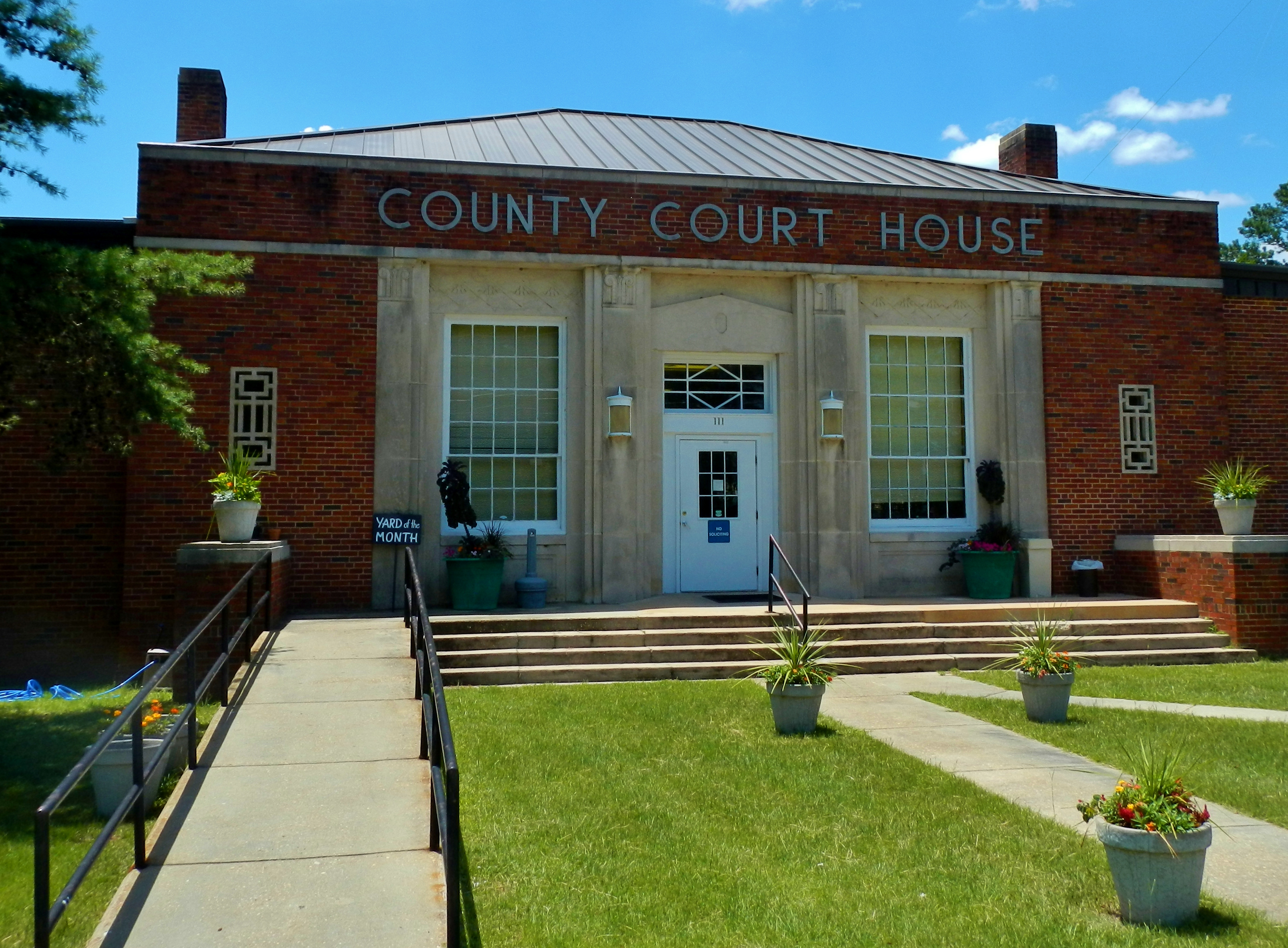 This is a photograph of the Quitman County Courthouse in Georgetown, GA.